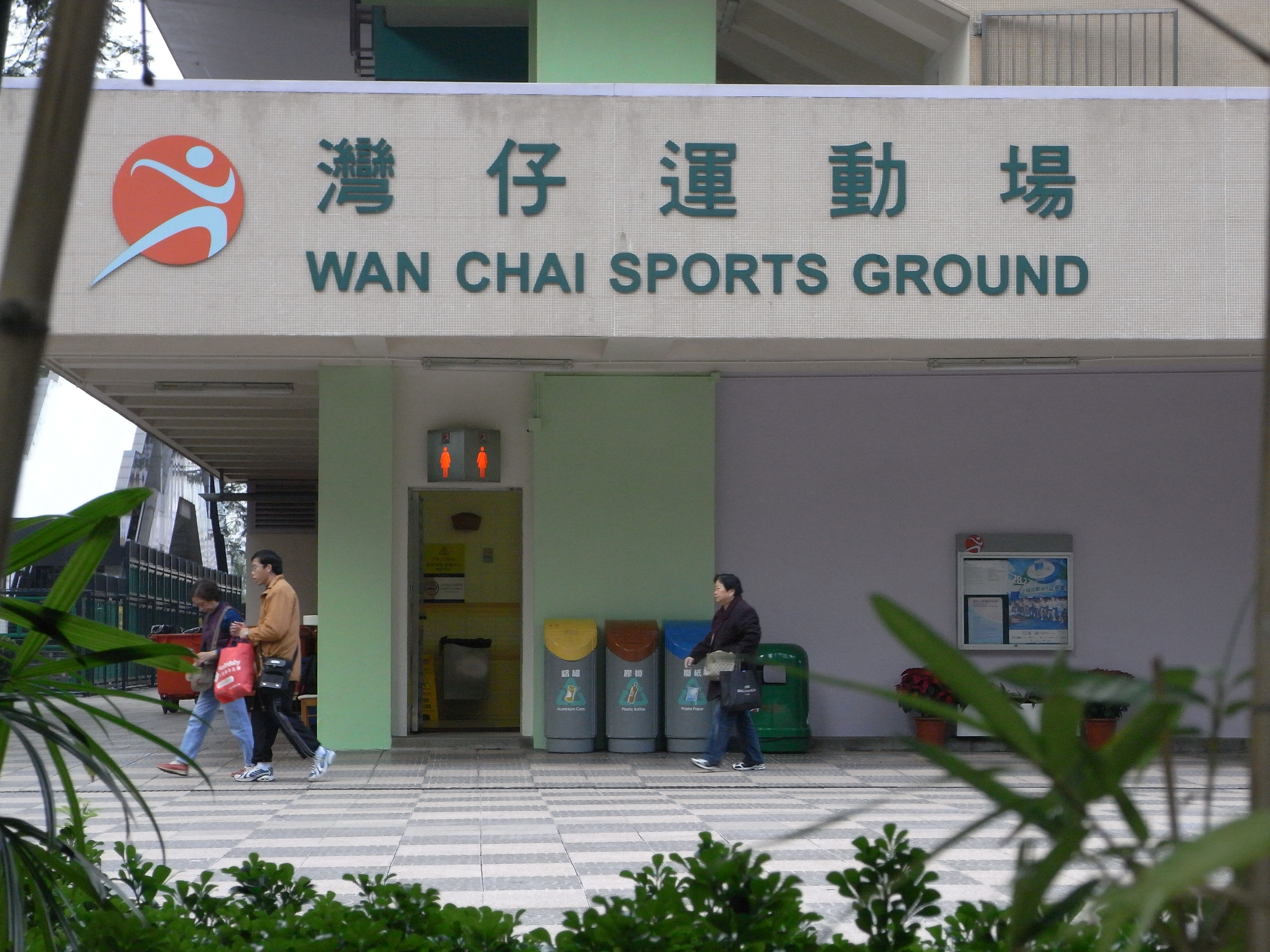 灣仔運動場